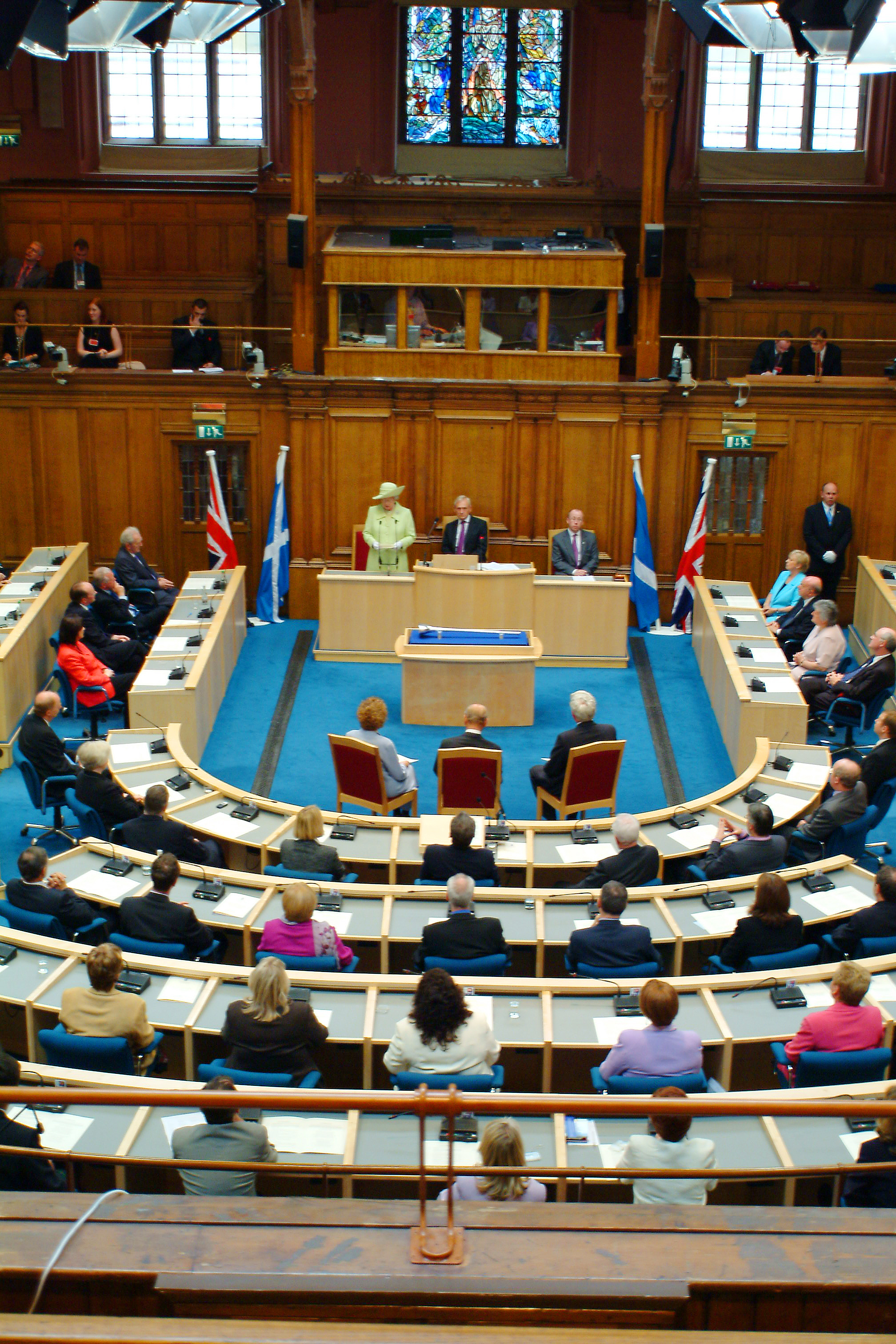 Her Majesty The Queen addresses MSPs at the temporary home of the Scottish Parliament in the General Assembly building of the Church of Scotland on The Mound in Edinburgh (3 June 2003)